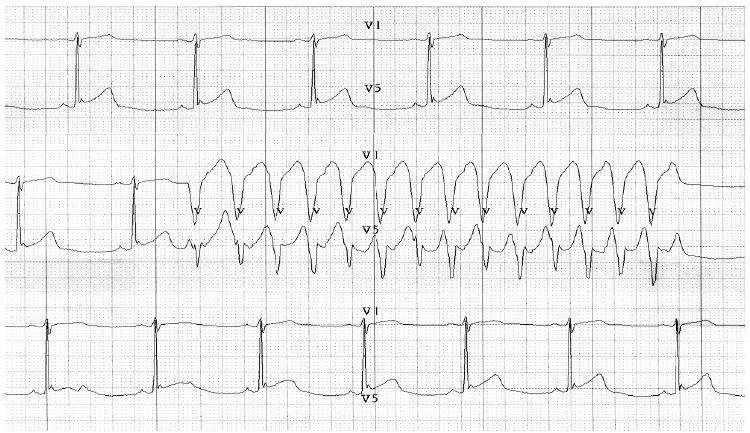 Figure 1. Record of a non-sustained tachycardia from a Mir crewmember [3]. Other information Page 7